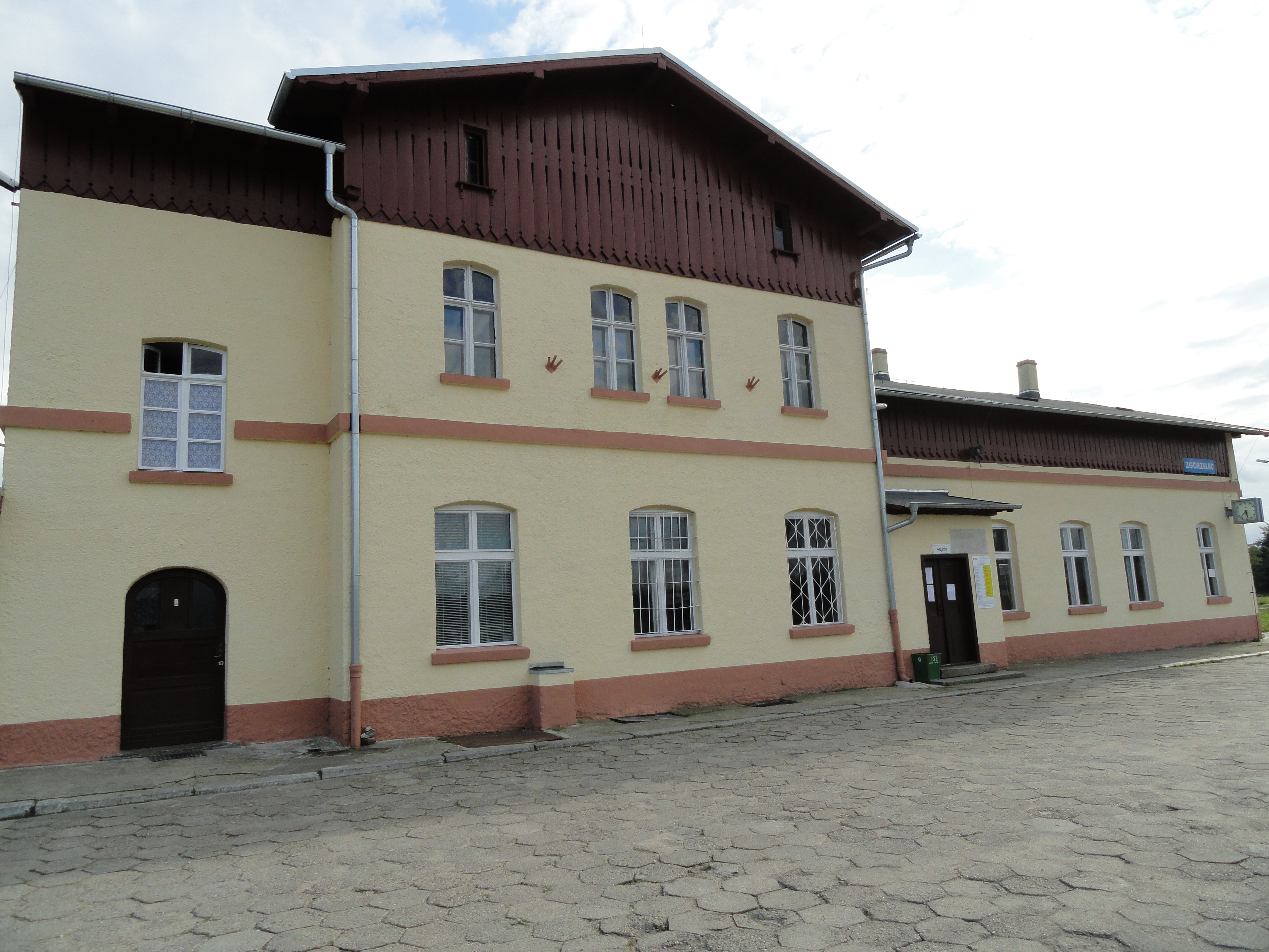 PKP train station „Zgorzelec“, former „Görlitz-Moys“ in Poland